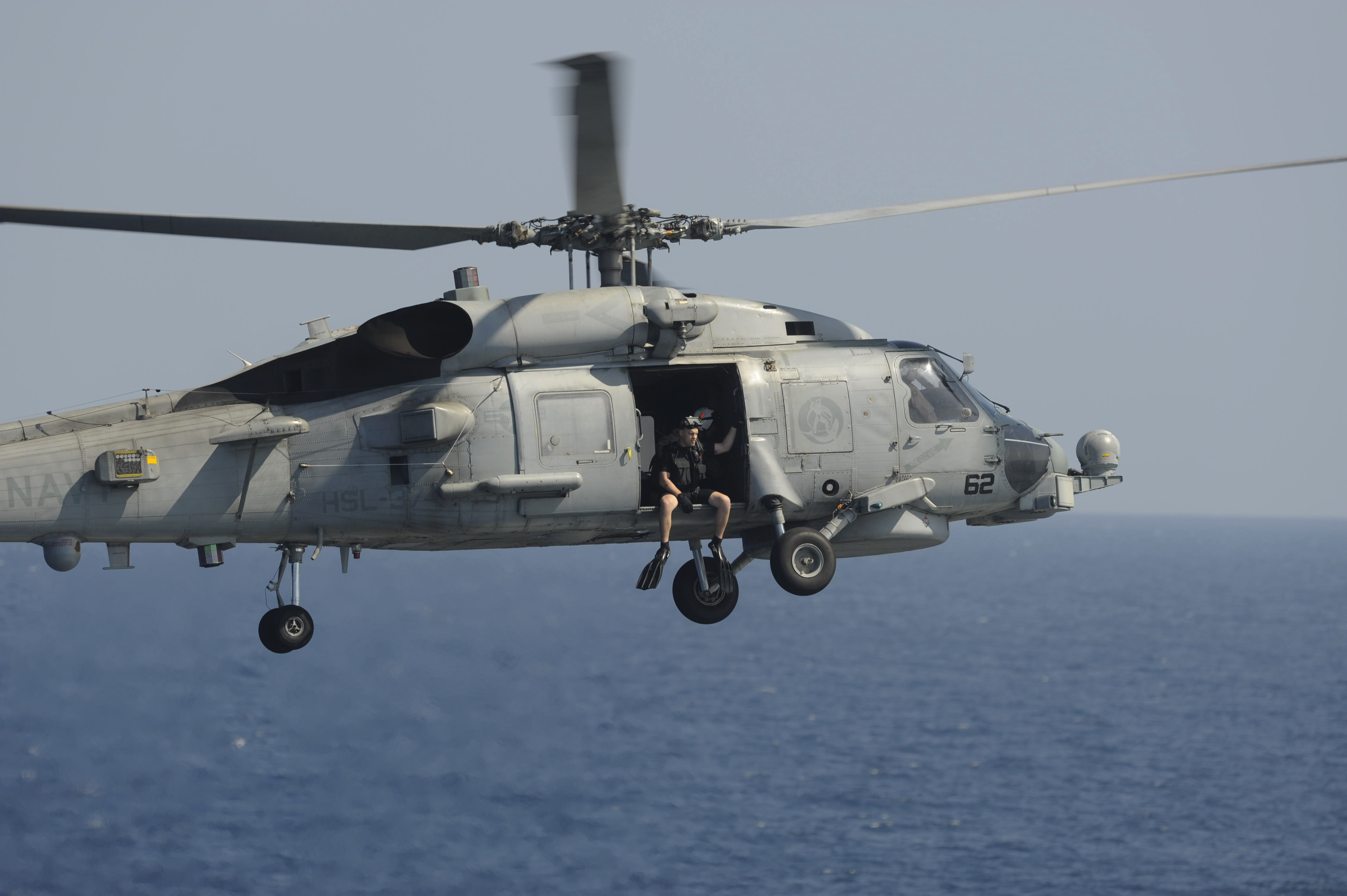 GULF OF ADEN (Nov. 17, 2009) Naval Aircrewman 2nd Class Bryan Vesce, a rescue swimmer assigned to Helicopter Anti-Submarine Squadron Light (HSL) 37, which is embarked aboard the guided-missile cruiser USS Chosin (CG 65), prepares to jump from an SH-60B Sea Hawk helicopter to rescue three men spotted clinging to a piece of wood in the Gulf of Aden. Chosin is the flagship of Combined Joint Task Force 151, a multi national task force established to conduct counter-piracy operations under a mission-based mandate to actively deter, disrupt, and suppress piracy off the coast of Somalia. (U.S. Navy photo by Mass Communication Specialist 1st Class Scott Taylor/Released)